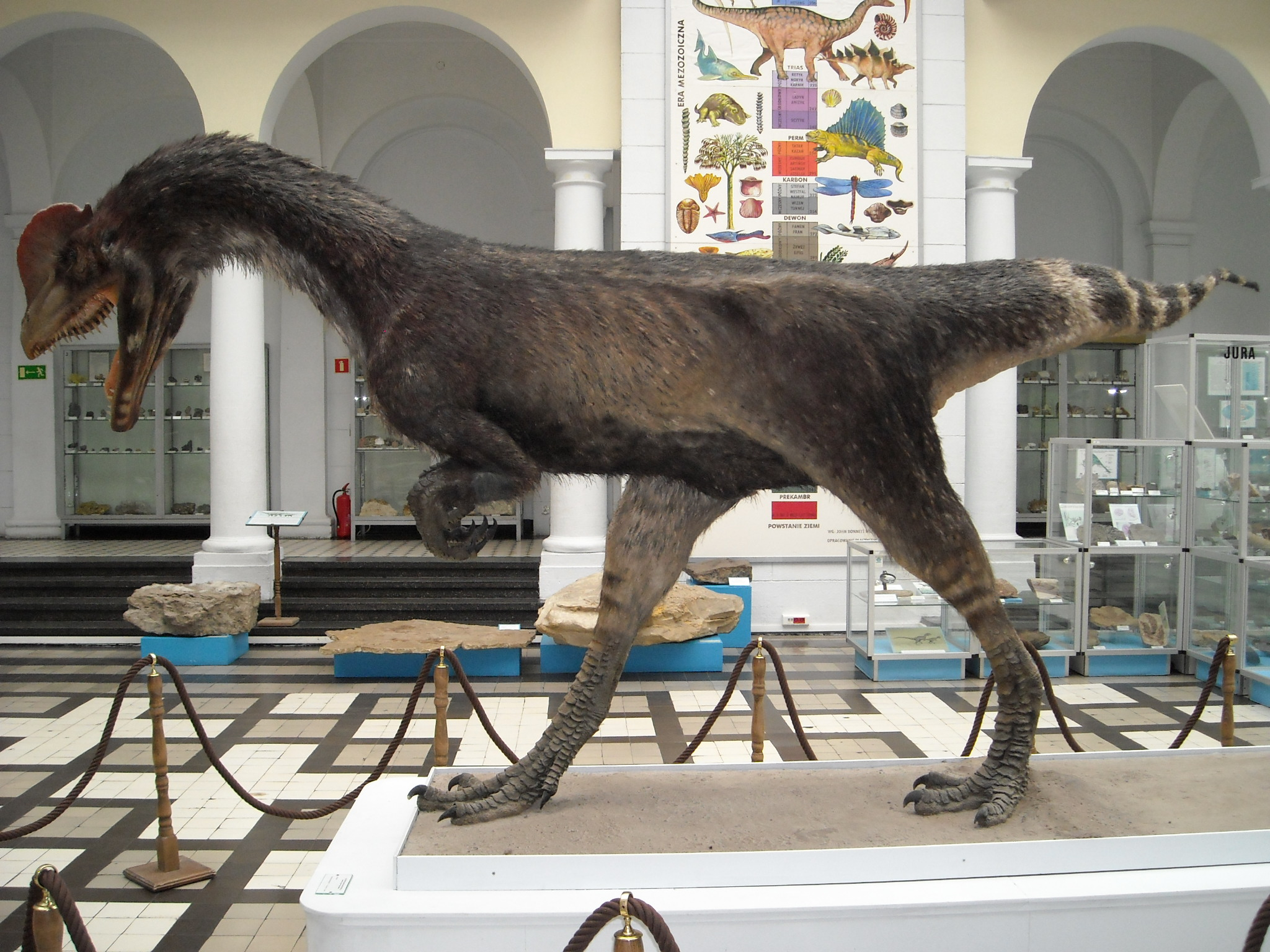 Dilophosaurus wetherilli model from left lateral view.